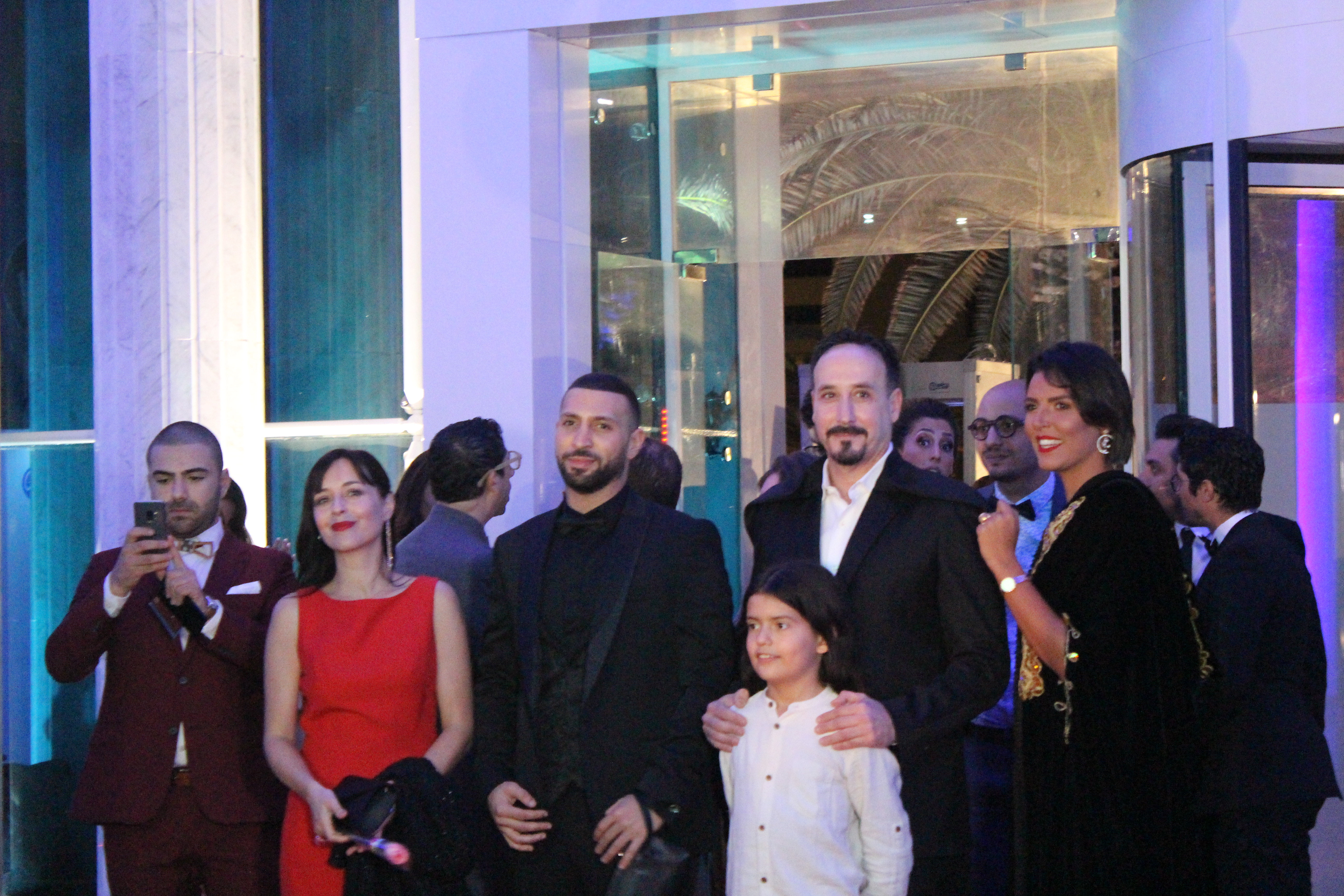 Opening ceremony of the 2018 edition of Carthage Film Festival